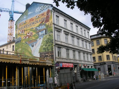 Old commercial on the wall, Alexander Kielland square, Oslo